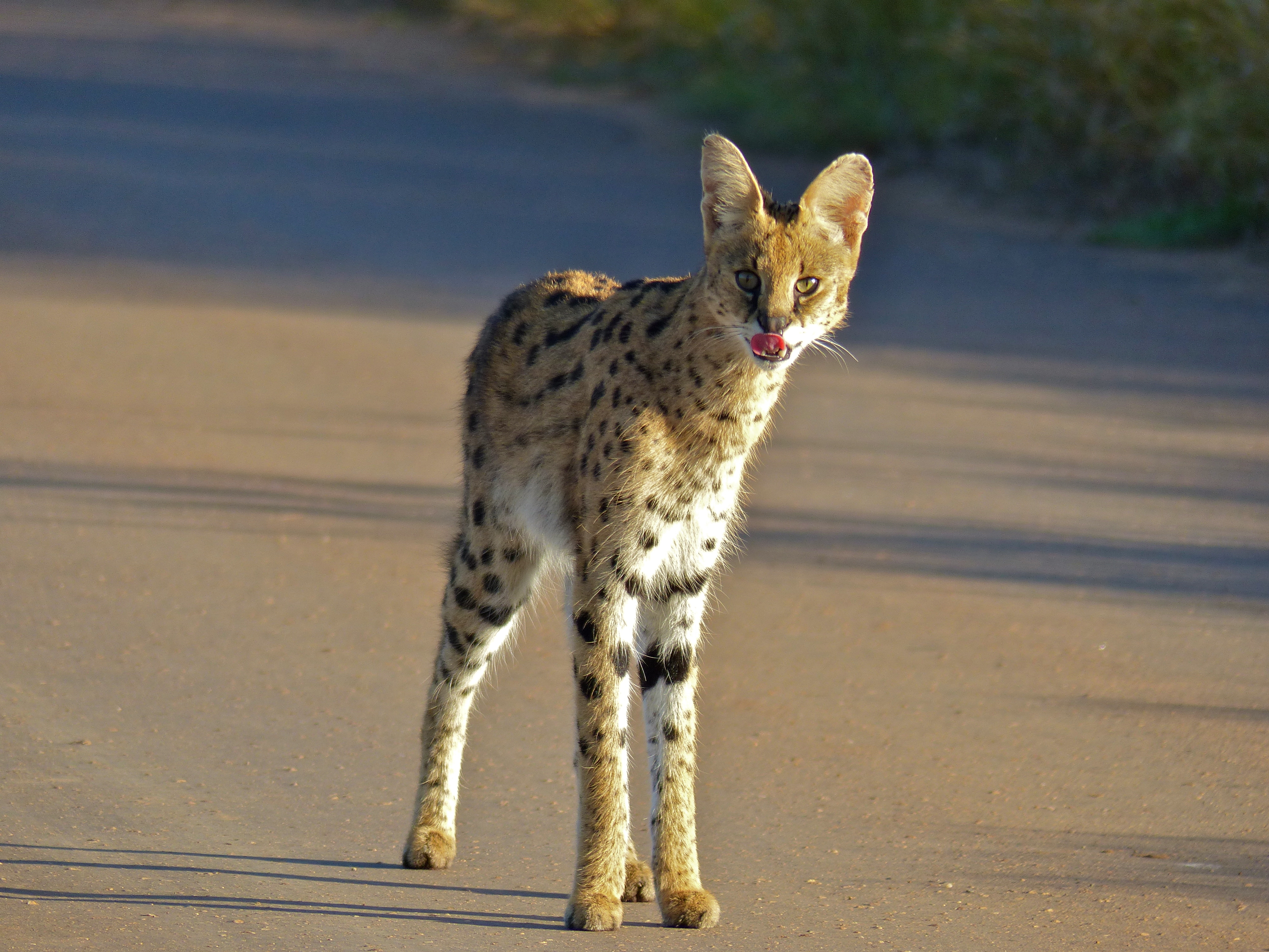 H10 Road North of Lower Sabie, Kruger NP, SOUTH AFRICA